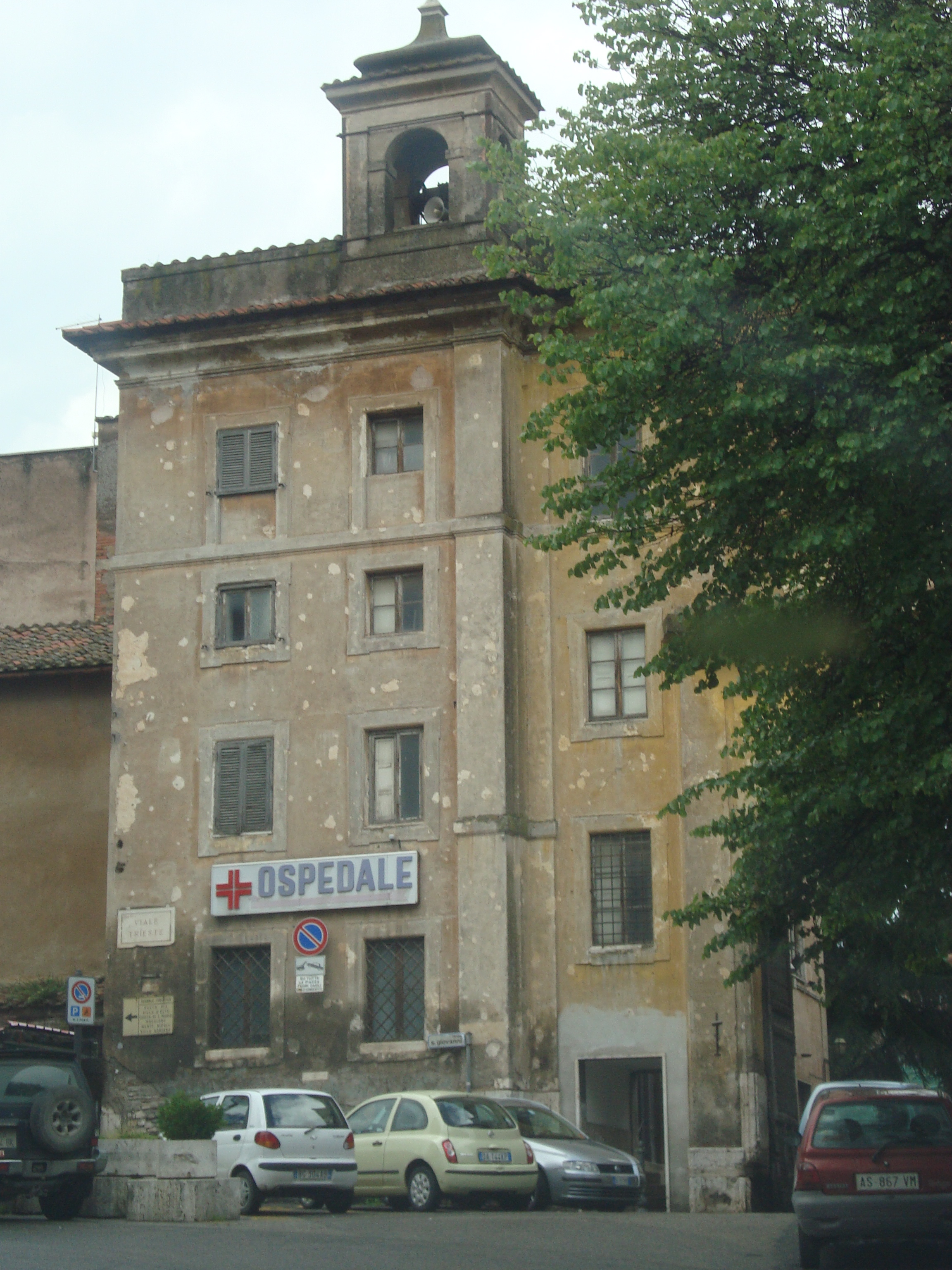 Historical entrance of San Giovanni Evangelista hospital in Tivoli